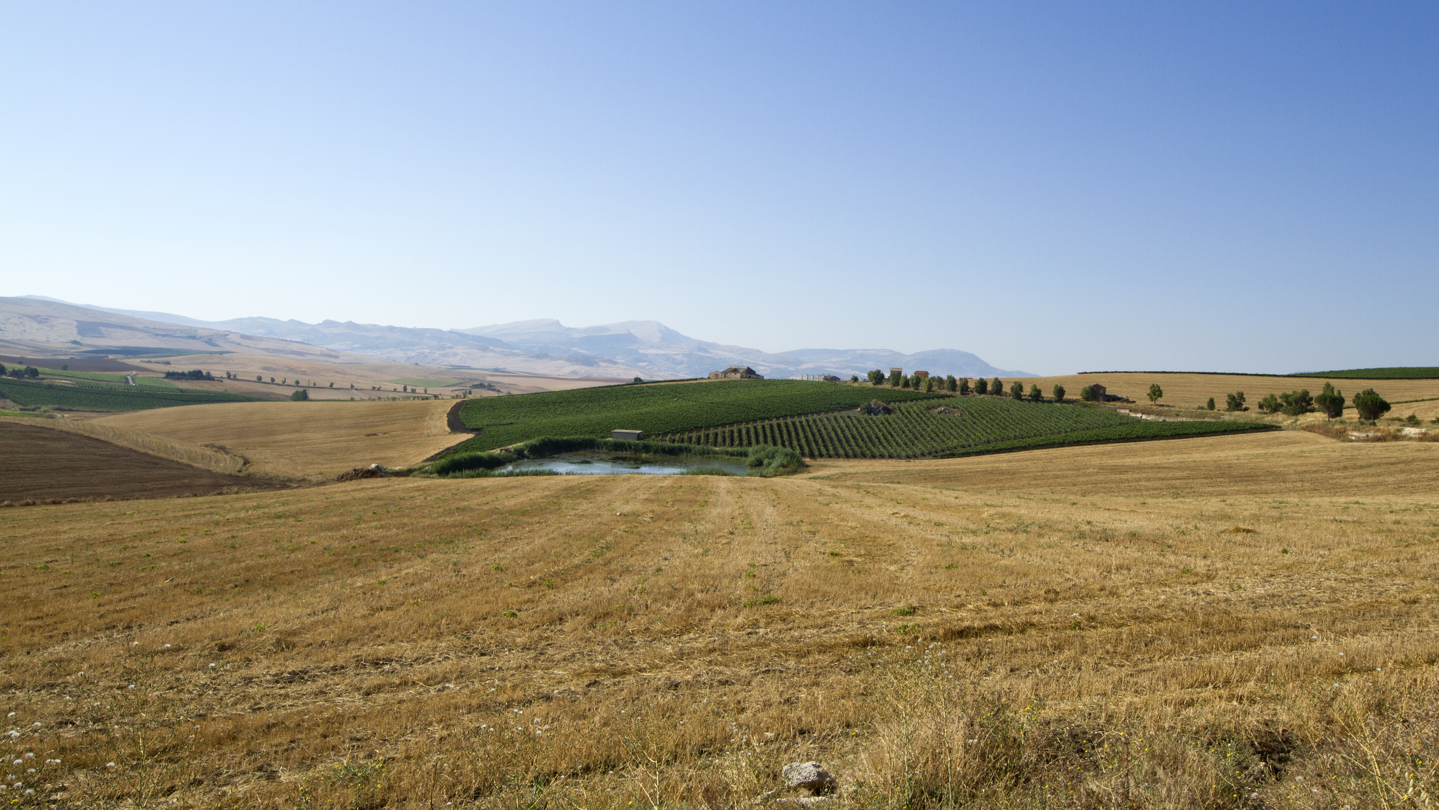 Monreale countryside